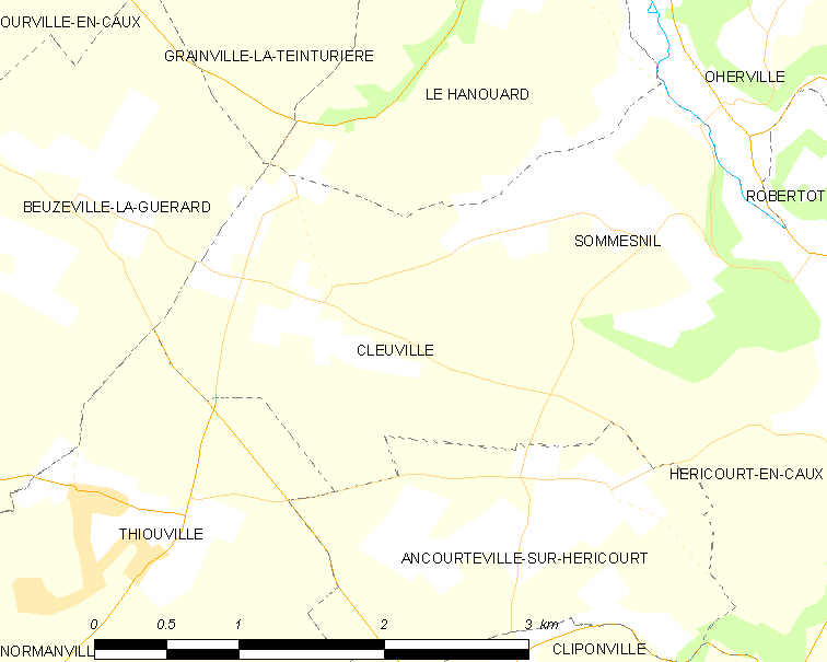 Map of French municipality Cleuville